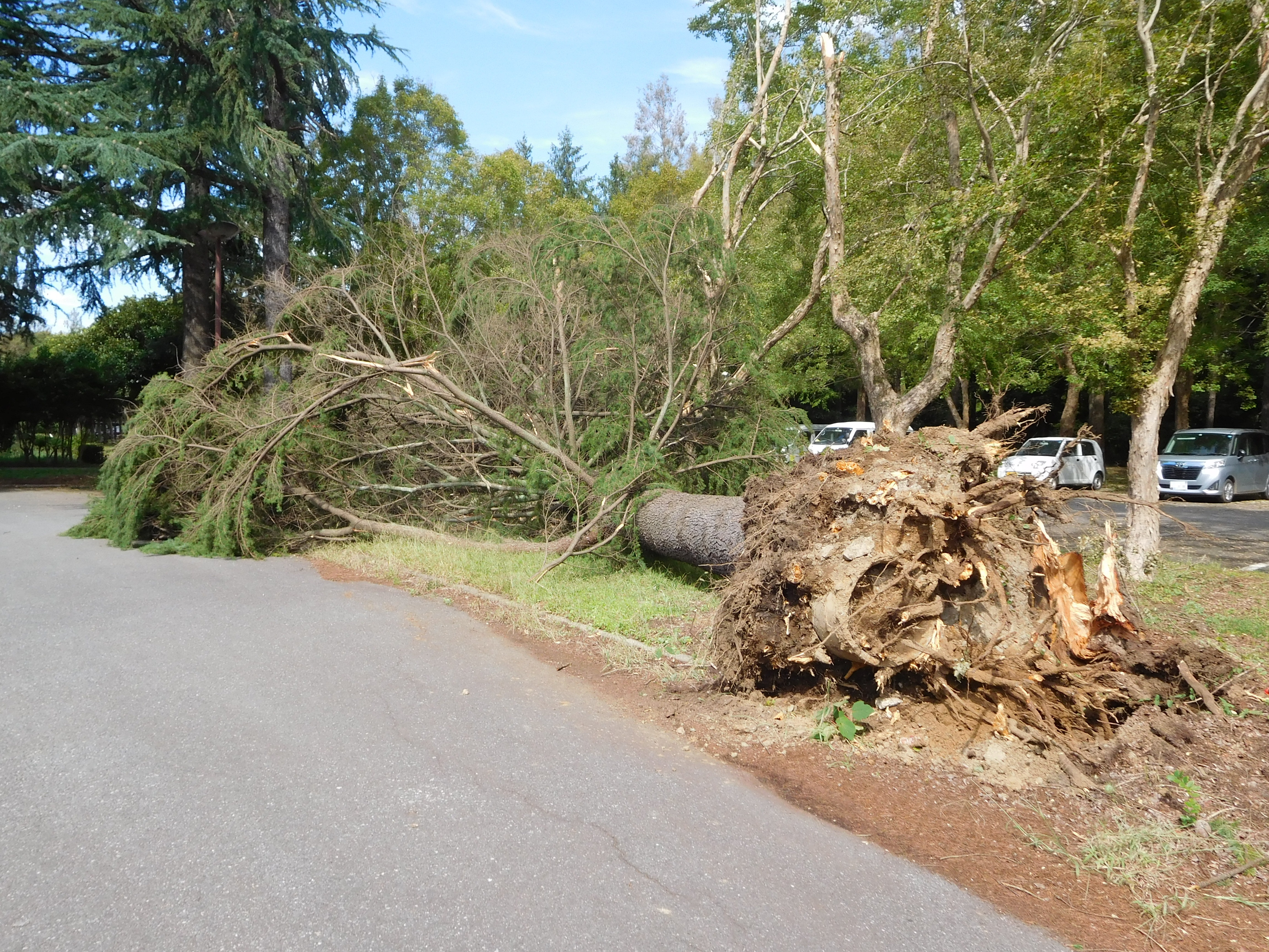 This is a fallen tree damaged by Typhoon Trami (2018). It is in Tsukuba, Ibaraki, Japan.